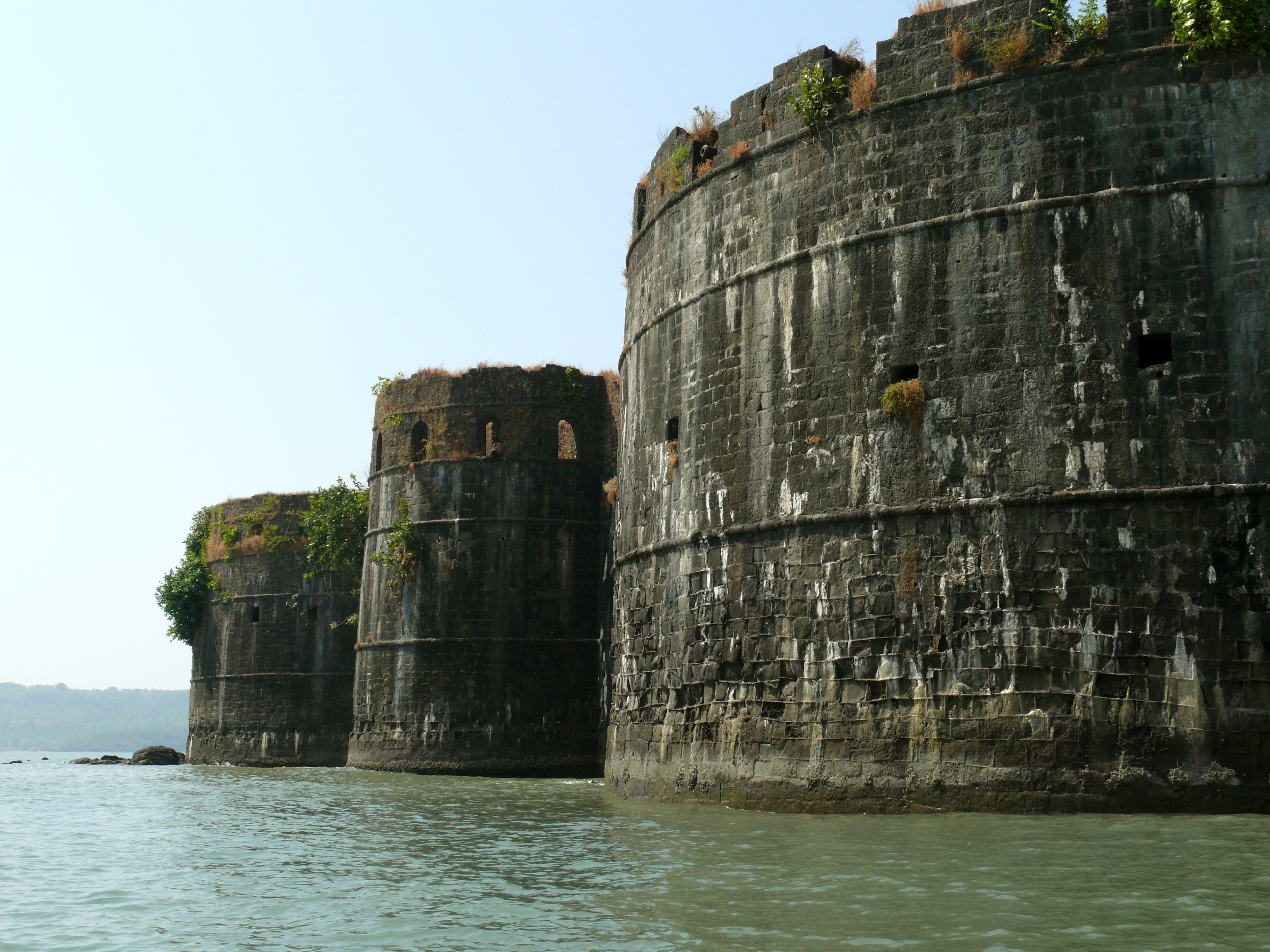 Murud-Janjira is the local name for a fort situated at the coastal village of Murud, in the Raigad district of Maharashtra, India.